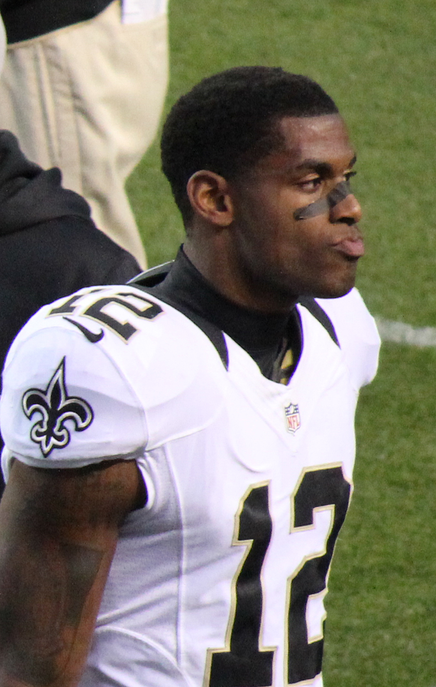 Marques Colston, a player on the National Football League.